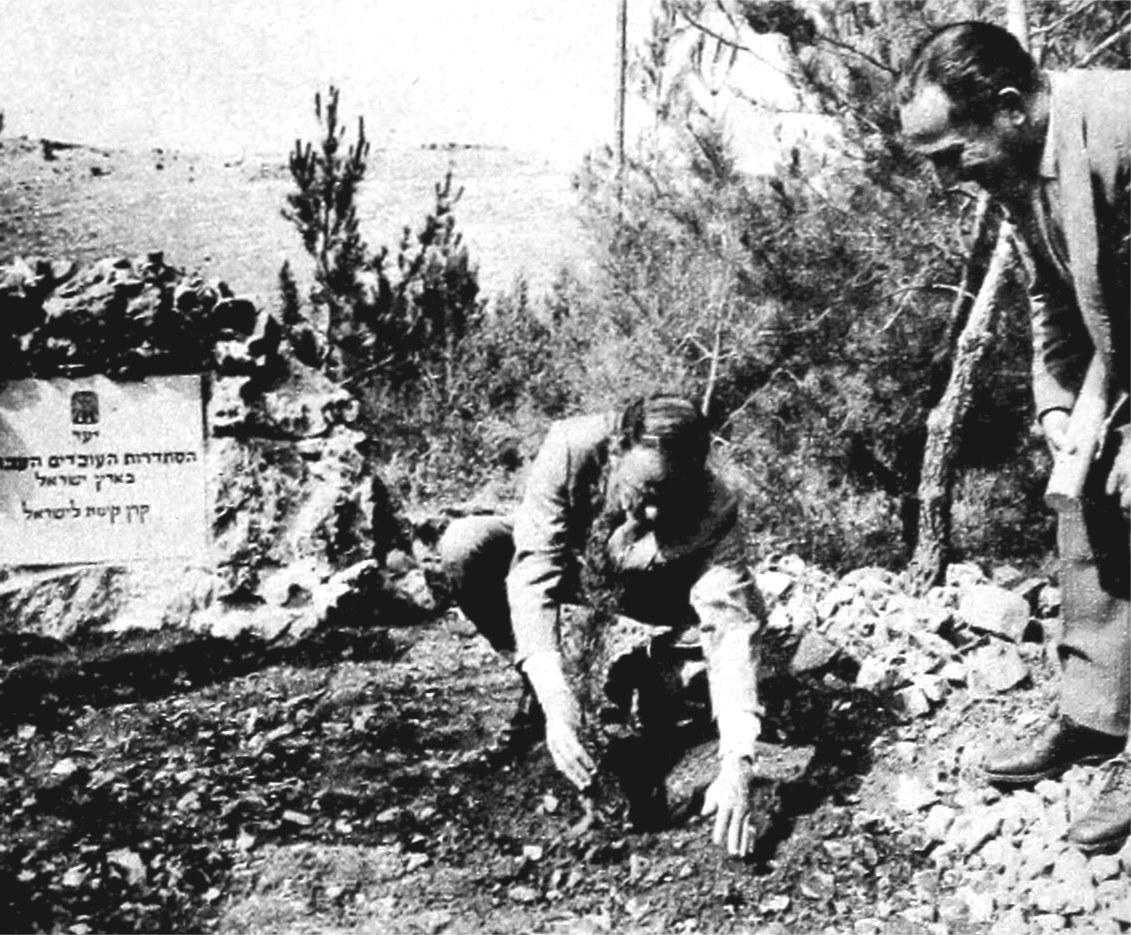 Photo of Frank Sinatra planting a tree for his daughter, Nancy, in the Histadruth Forest of Jerusalem while on a visit in 1962.